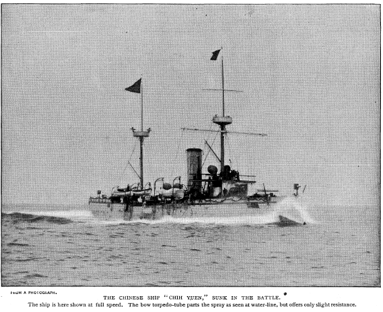 The Chinese cruiser Chih Yuen, ca. 1894.